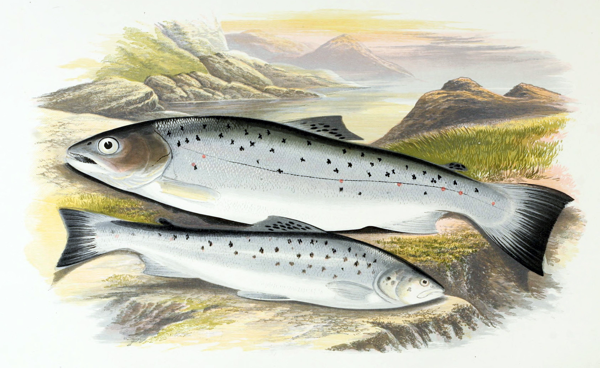 Salmo trutta trutta